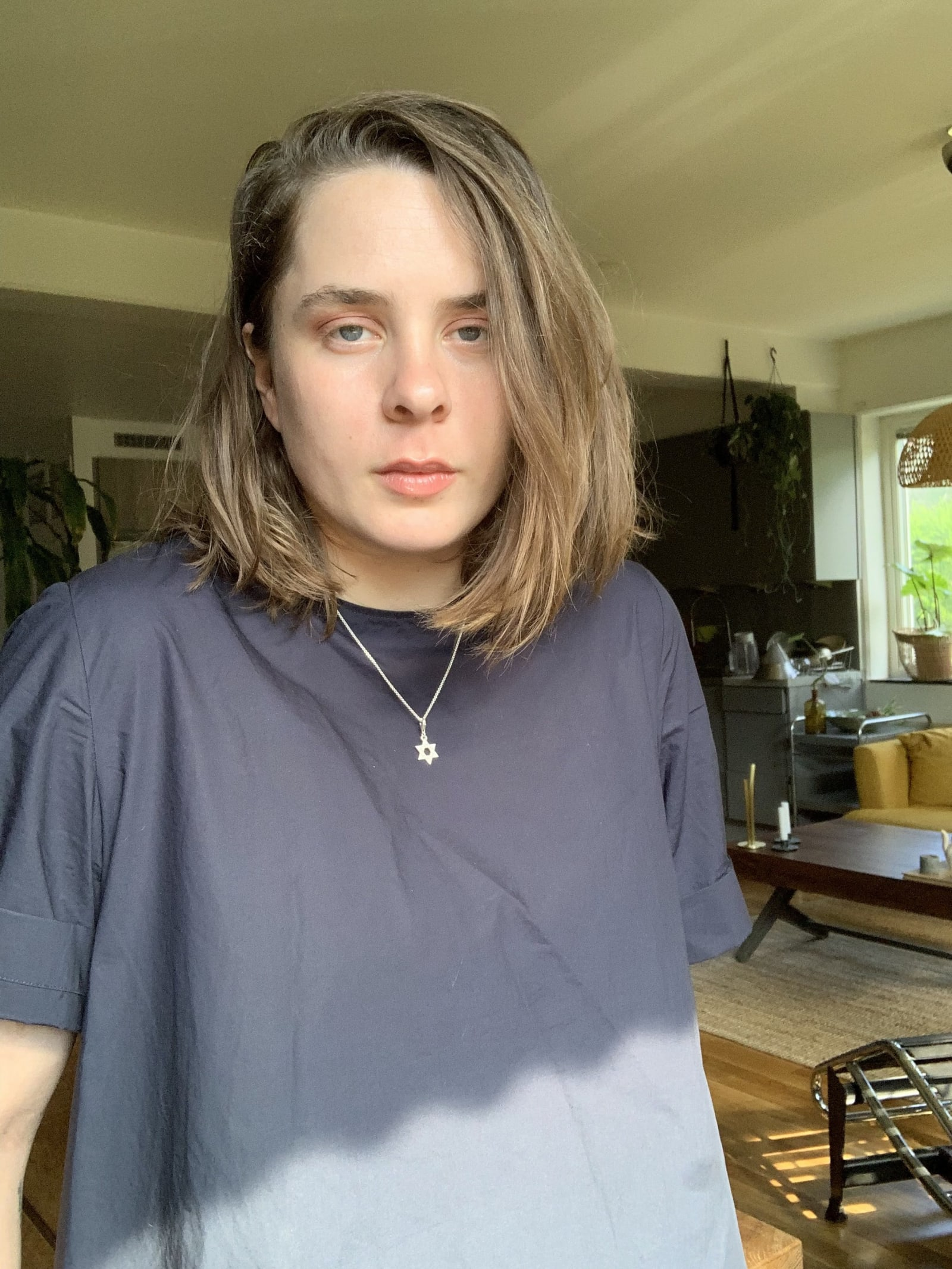 the author Hanna Rajs Lara